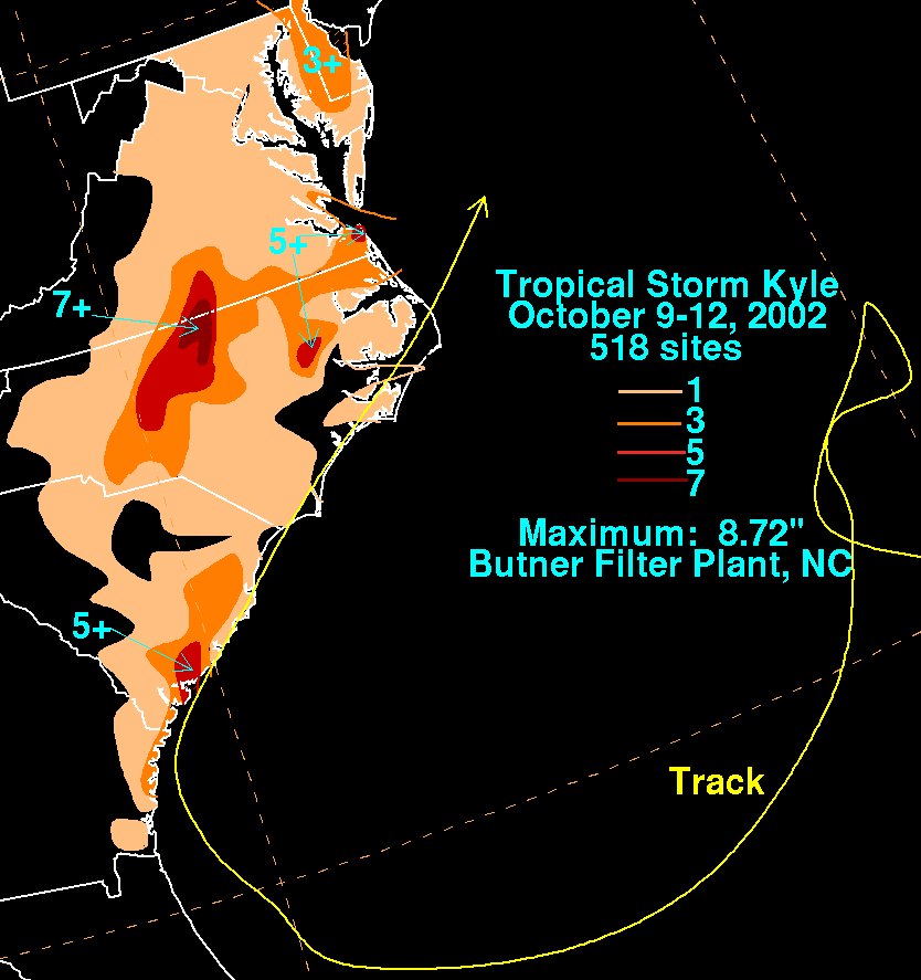 Storm total rainfall map of Hurricane Kyle during October 2002.